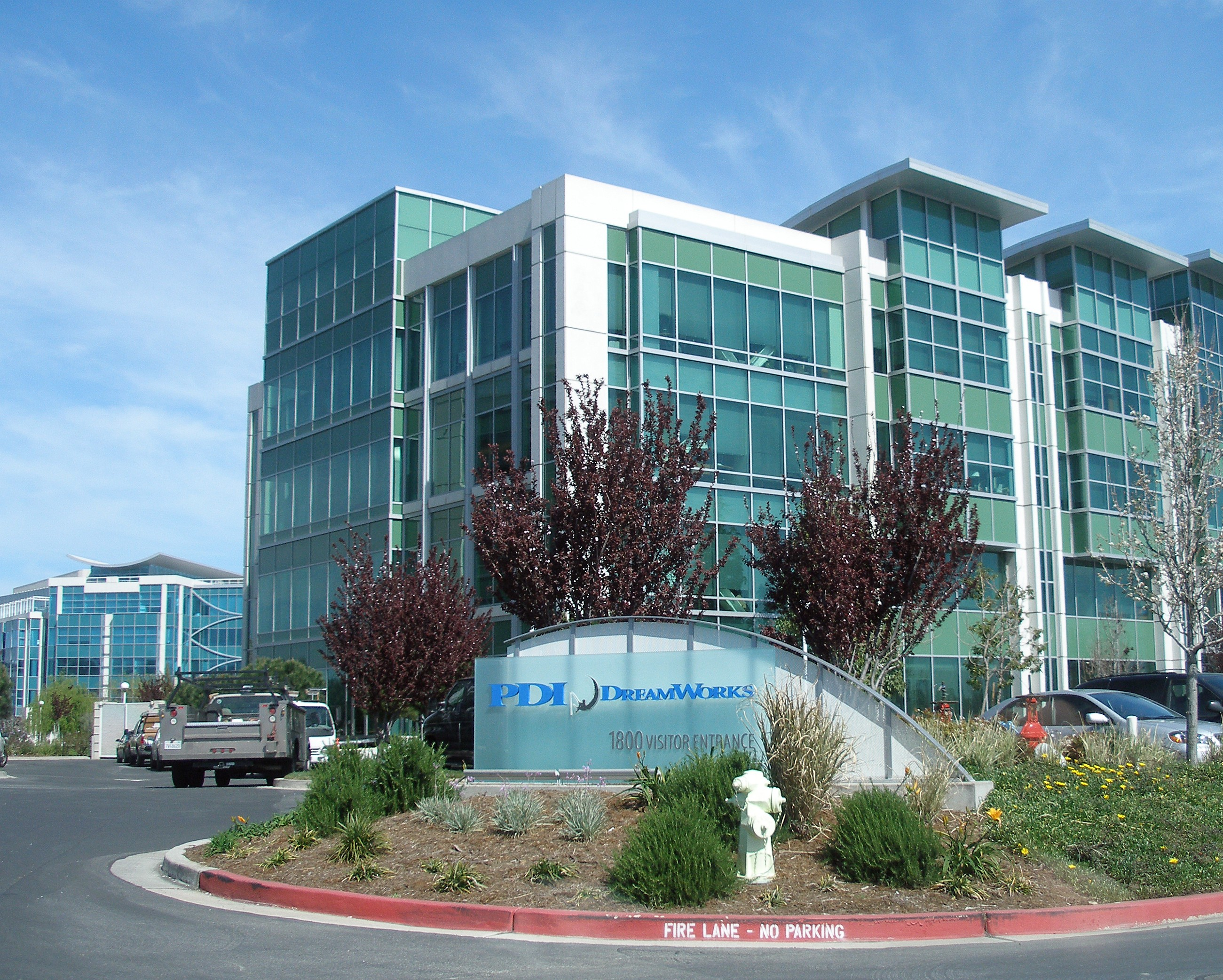 PDI/Dreamworks (the Northern California office of Dreamworks Animation) at the Pacific Design Center in Redwood City, California. Photographed on March 14, en:2007 by user Coolcaesar.